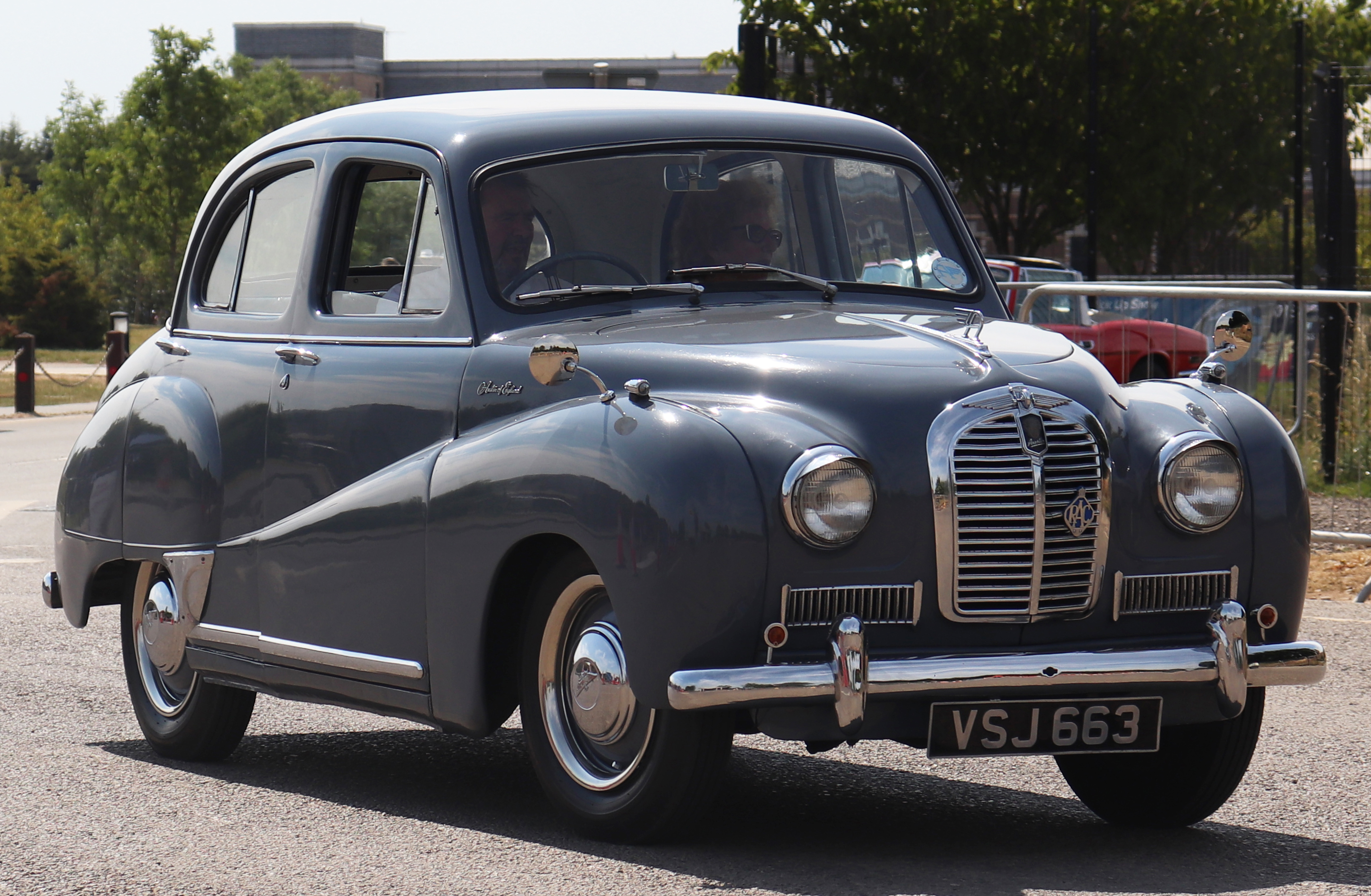 1954 Austin A40 1.2 Somerset Taken at the British Motor Museum BMC & Leyland Show 2018, Gaydon